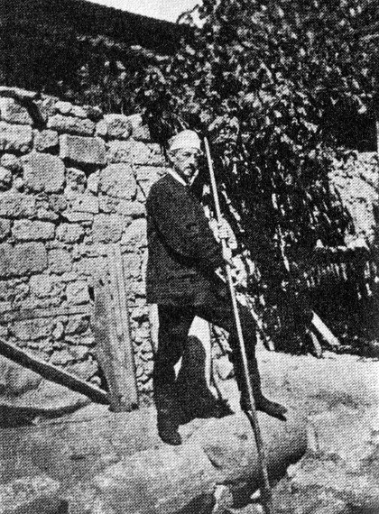 Alexander Conze (1831–1914), German classical archaeologist, during the excavations at Samothrace